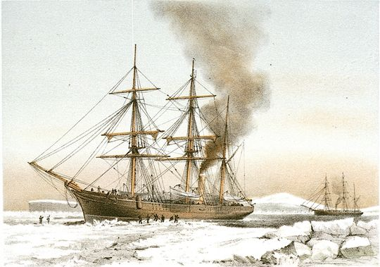 HMS Discovery